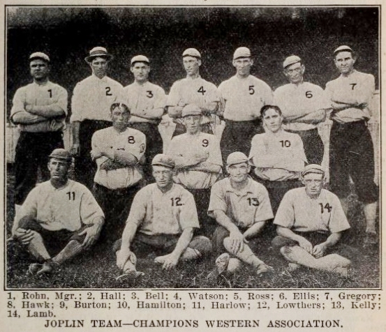 The 1910 Joplin Miners, a minor league baseball team from Joplin, Missouri